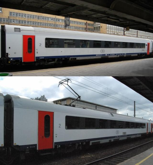 Diferent between AM96 and I11 coaches